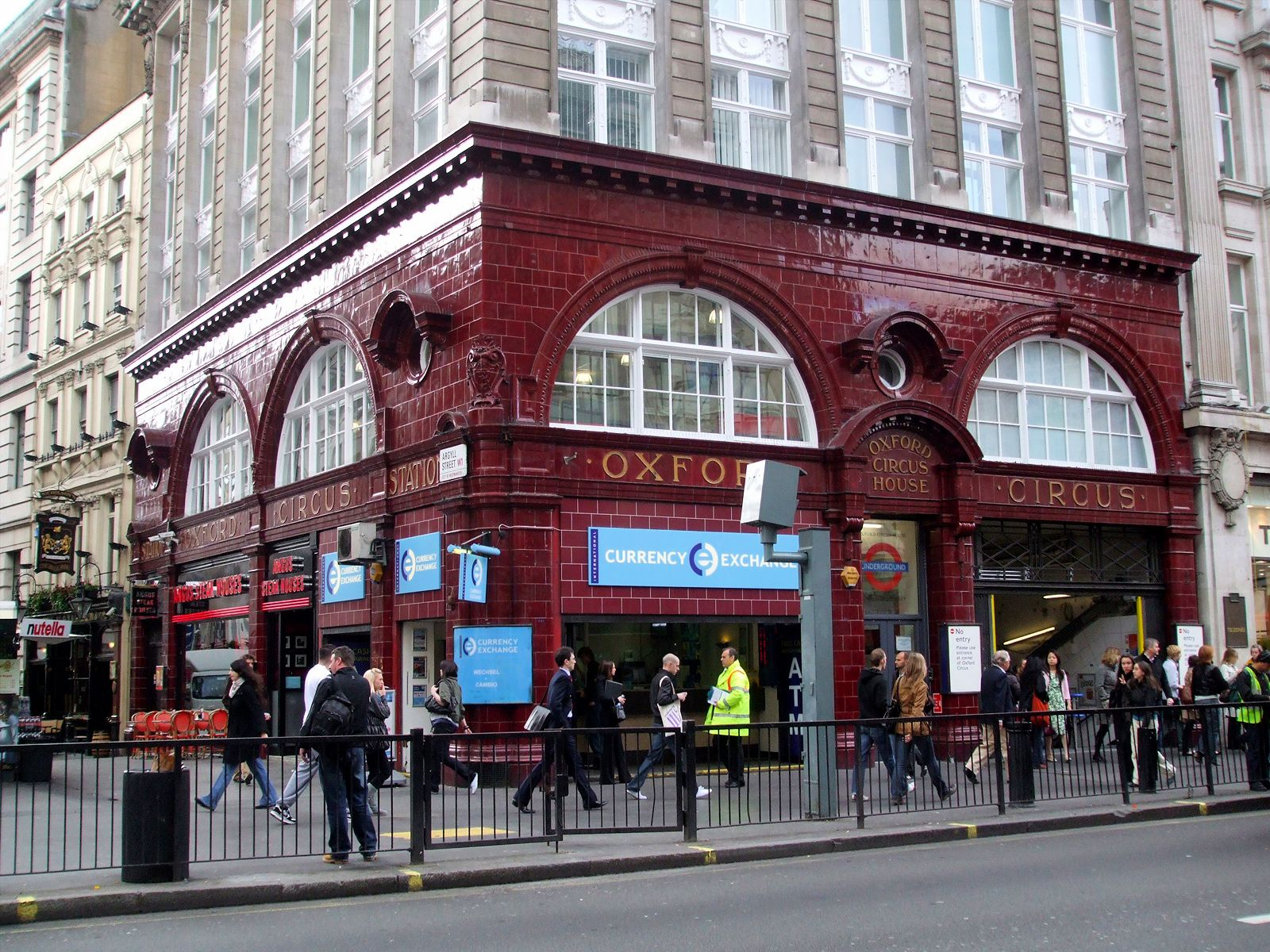 Oxford Circus tube station building, on Oxford Street. Once the Bakerloo railway building.